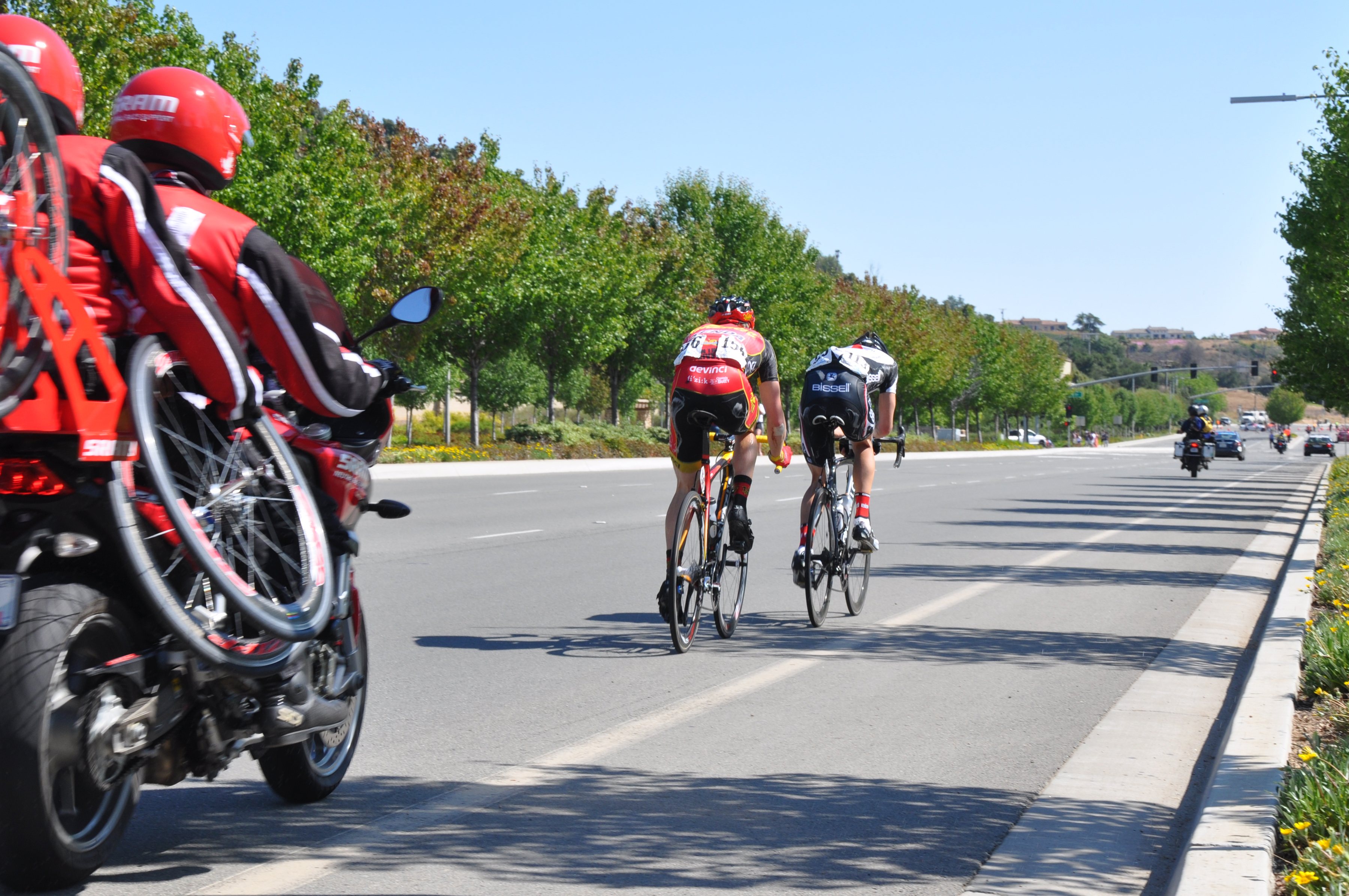 Lead riders Carter Jones and James Stemper reenter the city of Escondido during Stage 1 of the 2013 Tour of California.